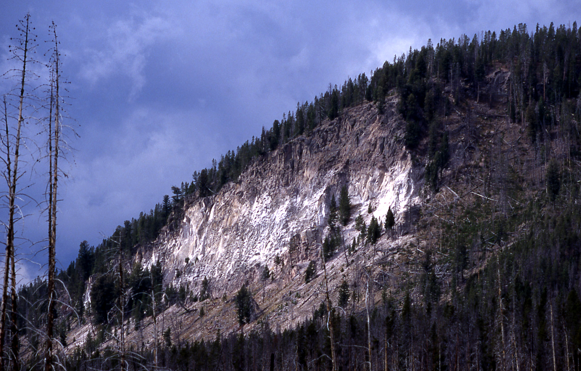 Tuff Cliff in Yellowstone National Park. The Lava Creek Tuff formation is exposed on the cliff face.